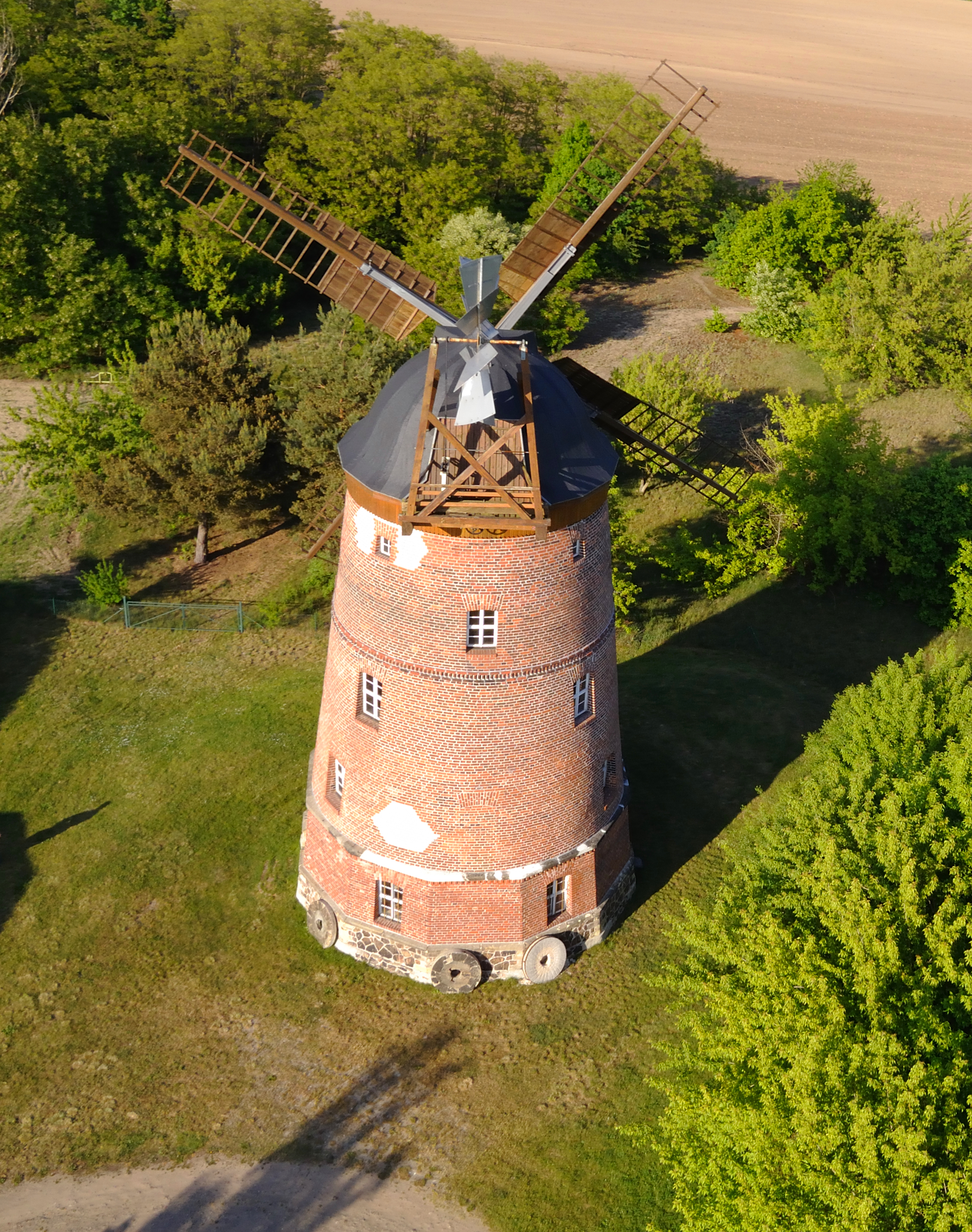 KAP (Kite Aerial Photography)